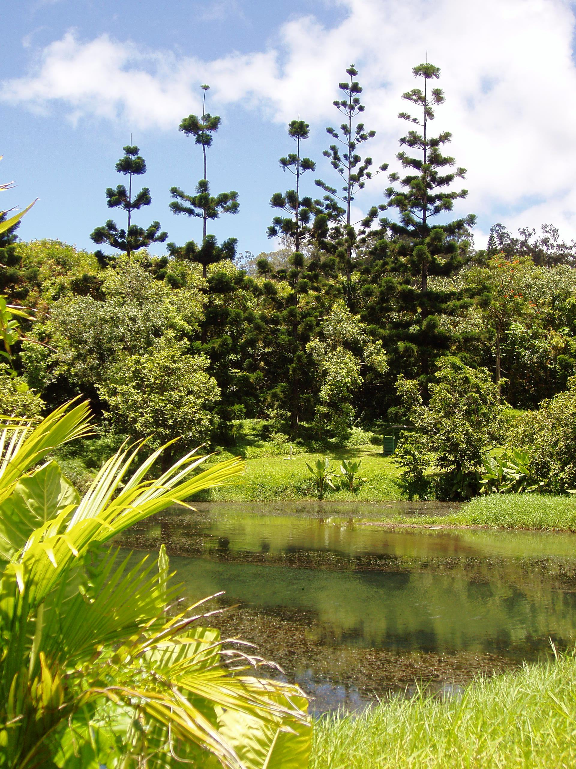 Ho'omaluhia Botanical Garden, Oahu, Hawaii - tree view.